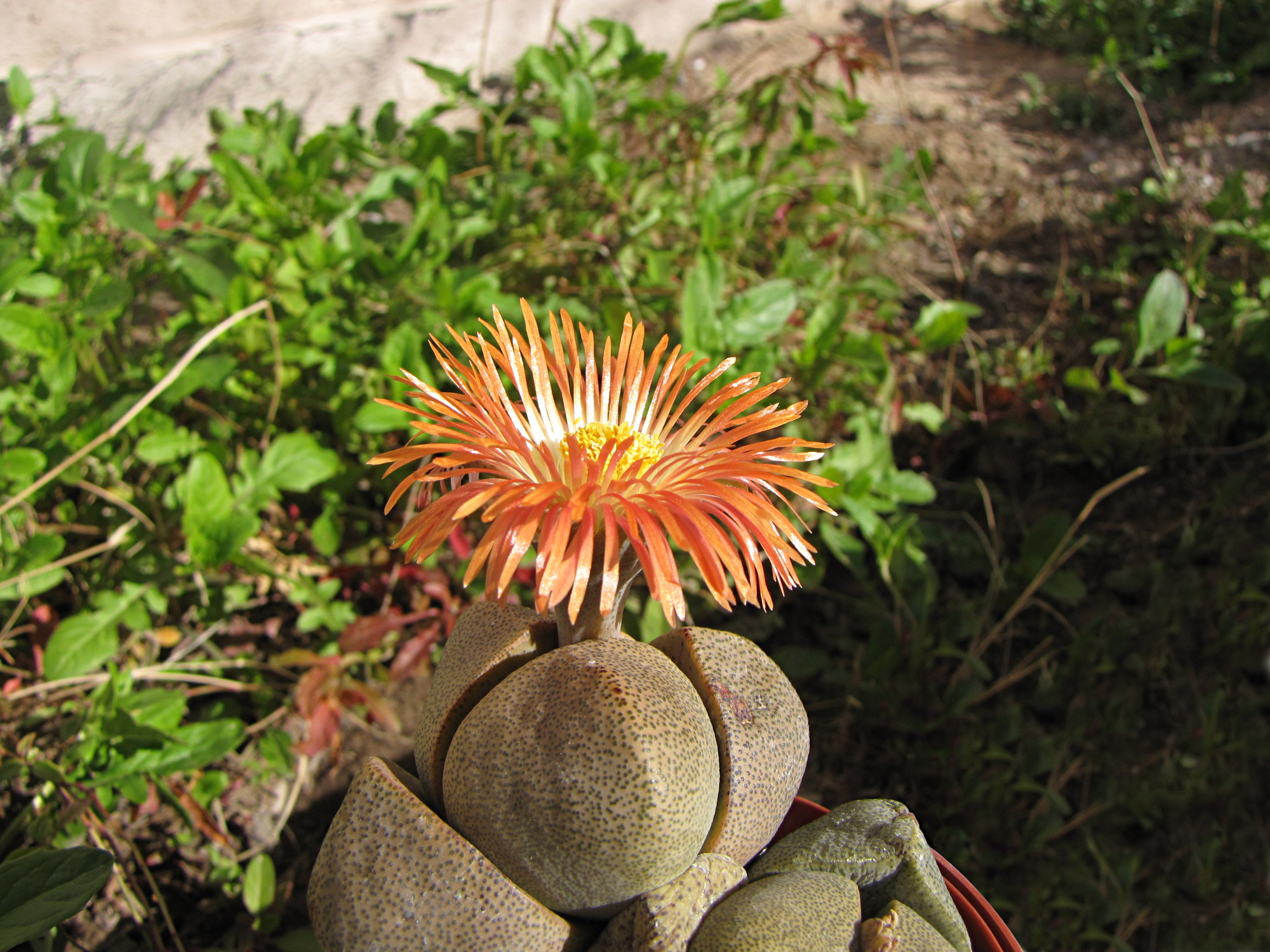 Pleiospilos nelii flower